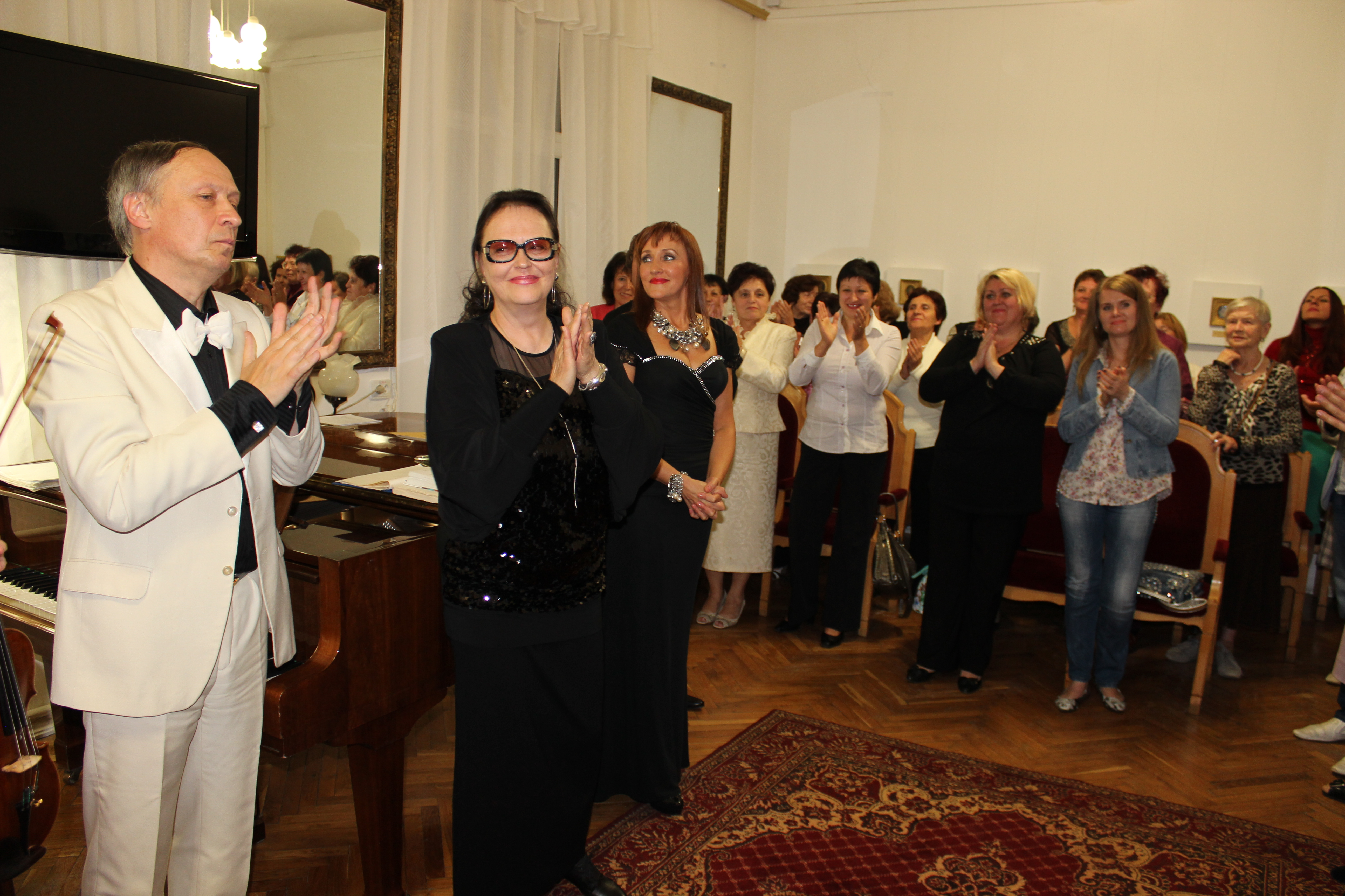 Tyurin